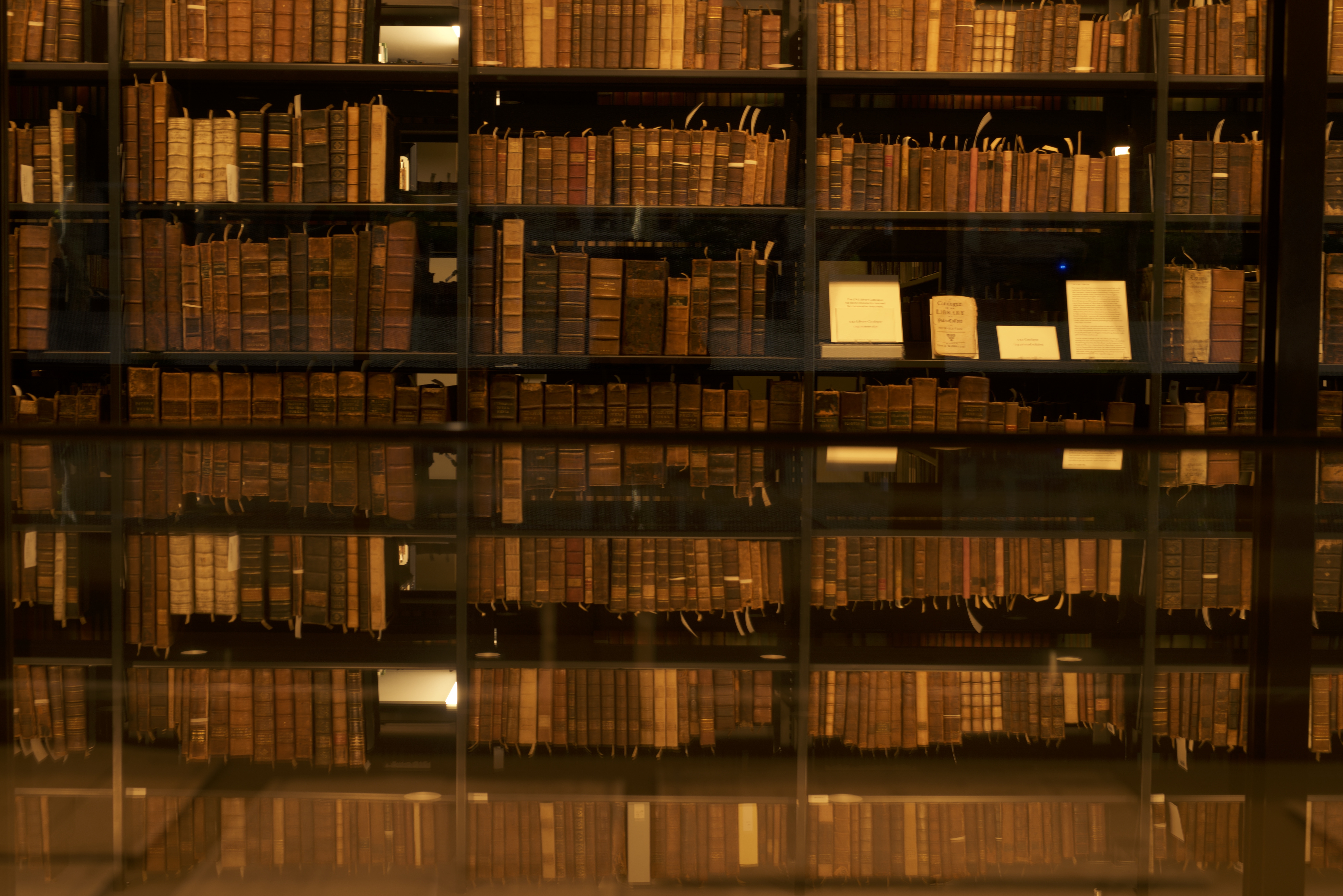 Bookshelf at the Beinecke Rare Book & Manuscript Library. The top floor contains 180,000 volumes.